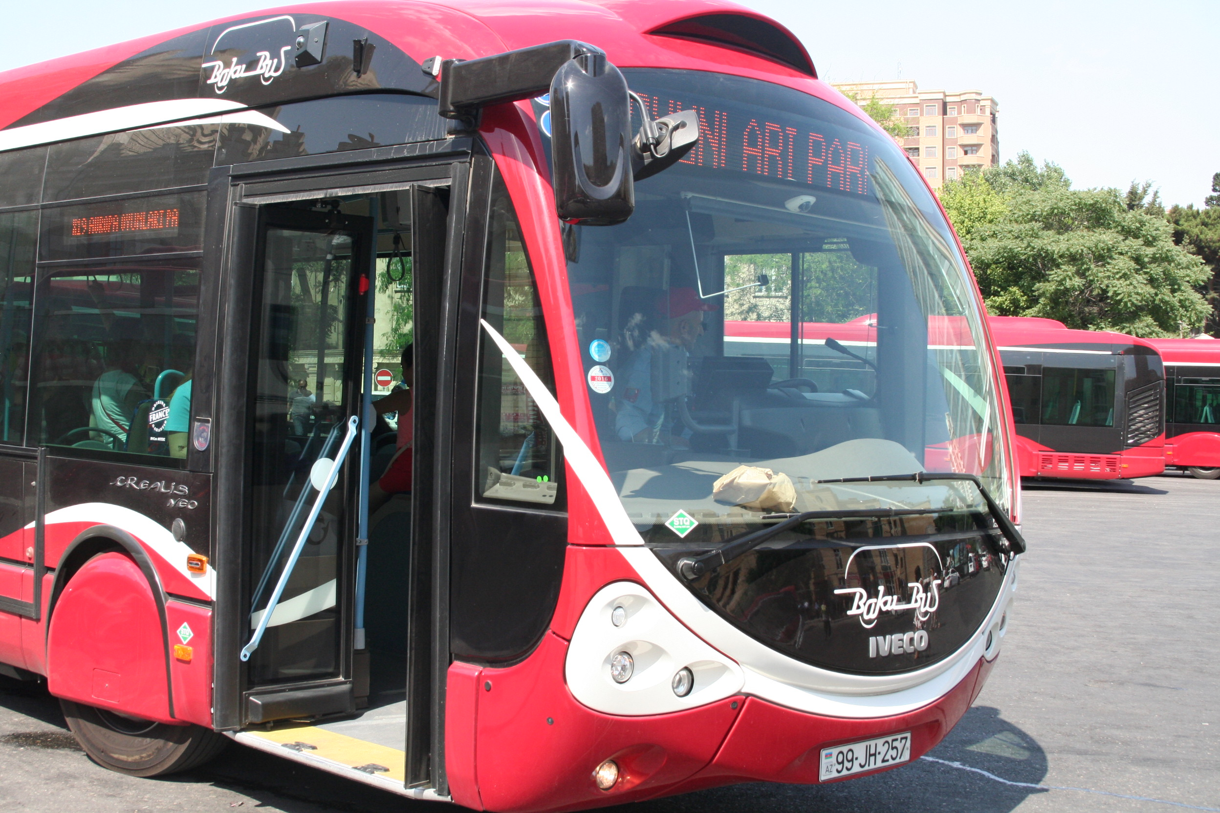 Free buses for 2015 European Games venues